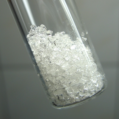 Appr. 2 grams of phenol in glass vial.